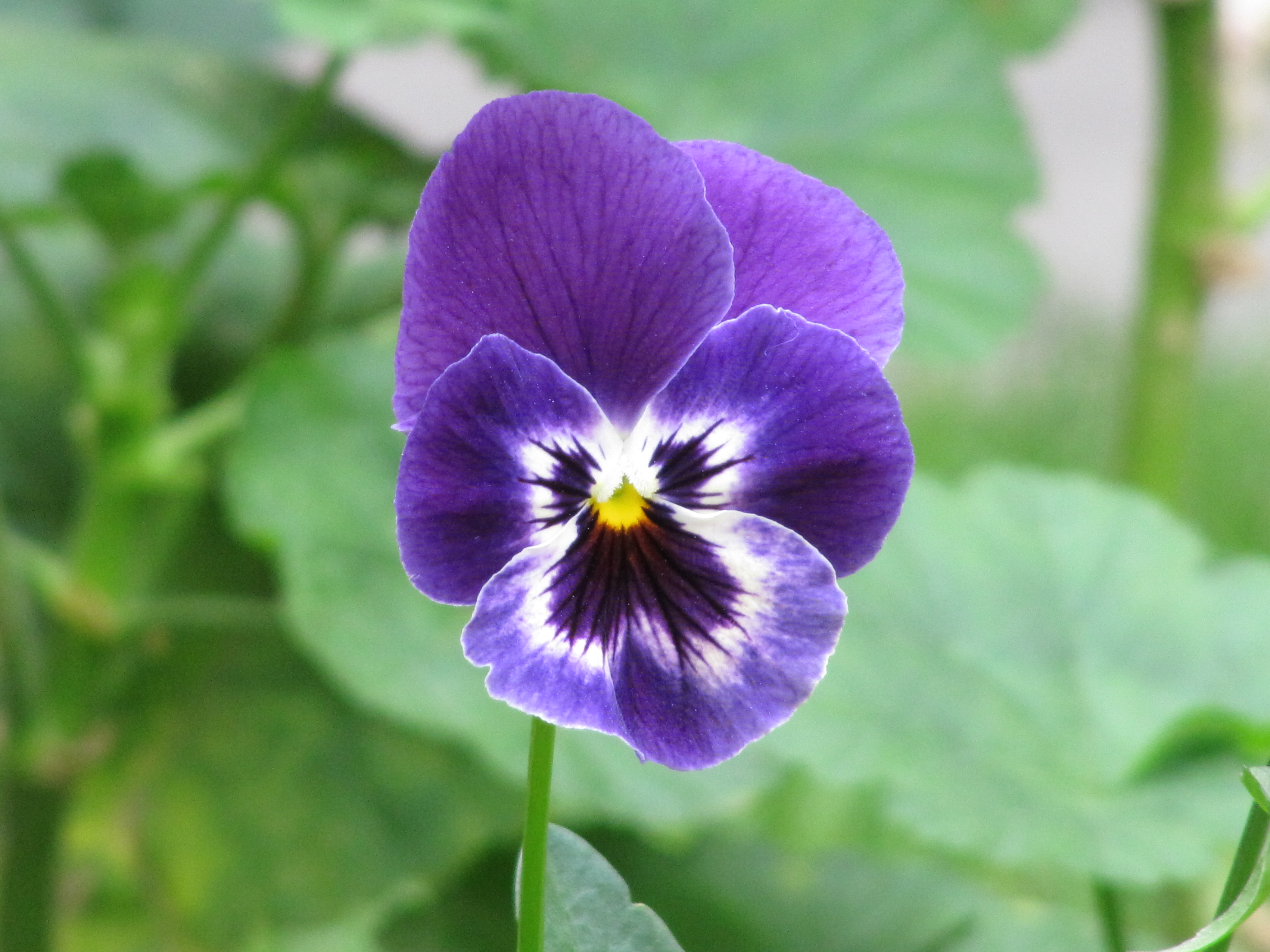 A Viola × wittrockiana